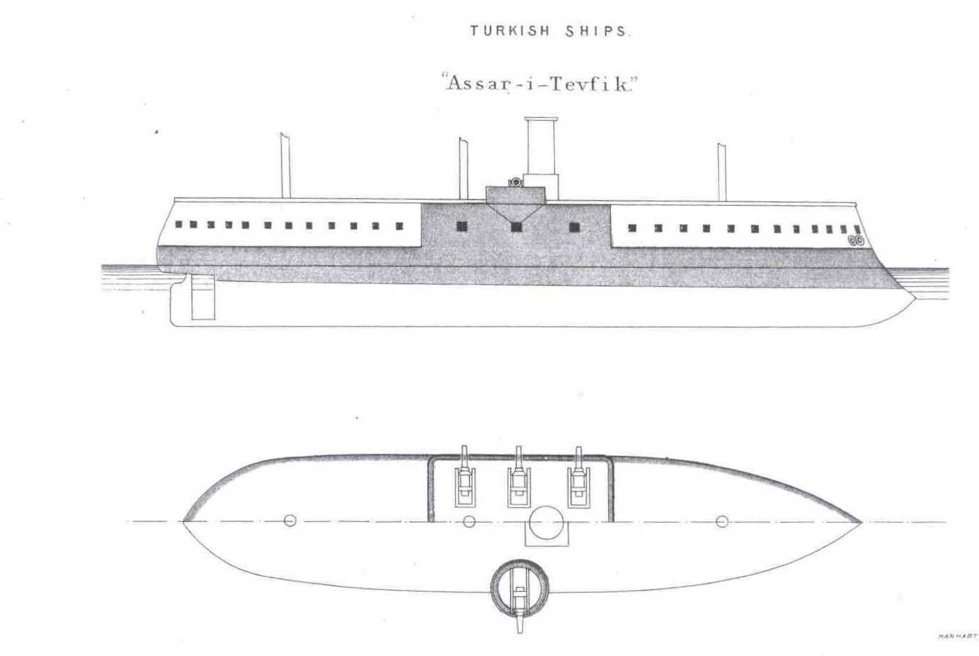 Plan of the Turkish armoured corvette Asar-i Tevfik